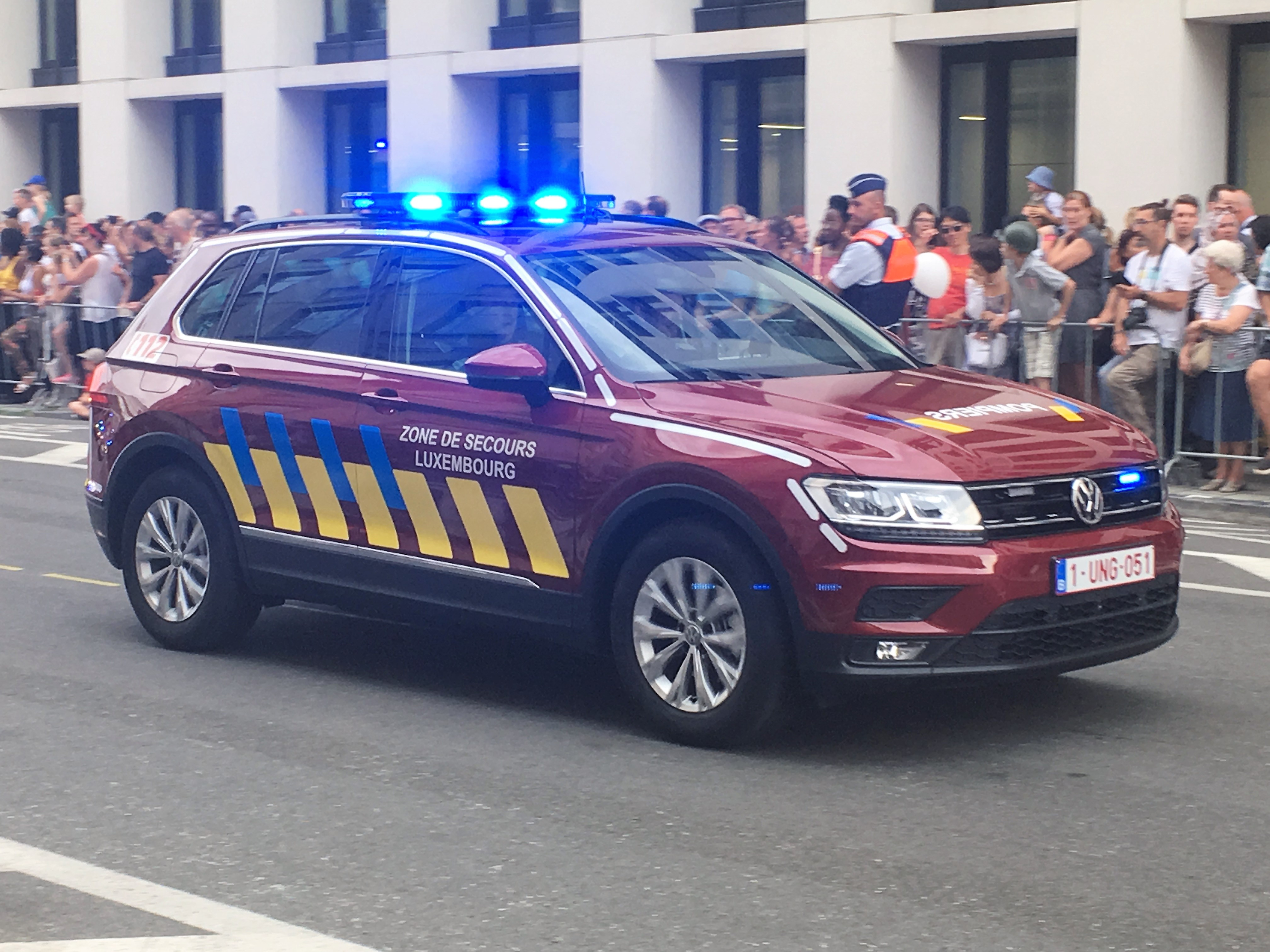 Volkswagen Tiguan command vehicle of the Belgian fire & rescue zone Luxembourg during the National Parade on July 21, 2018